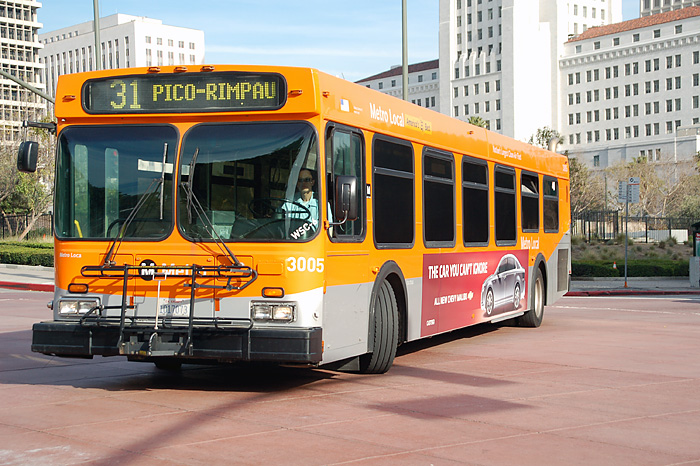 A New Flyer Industries D40LF bus operating for the LACMTA.